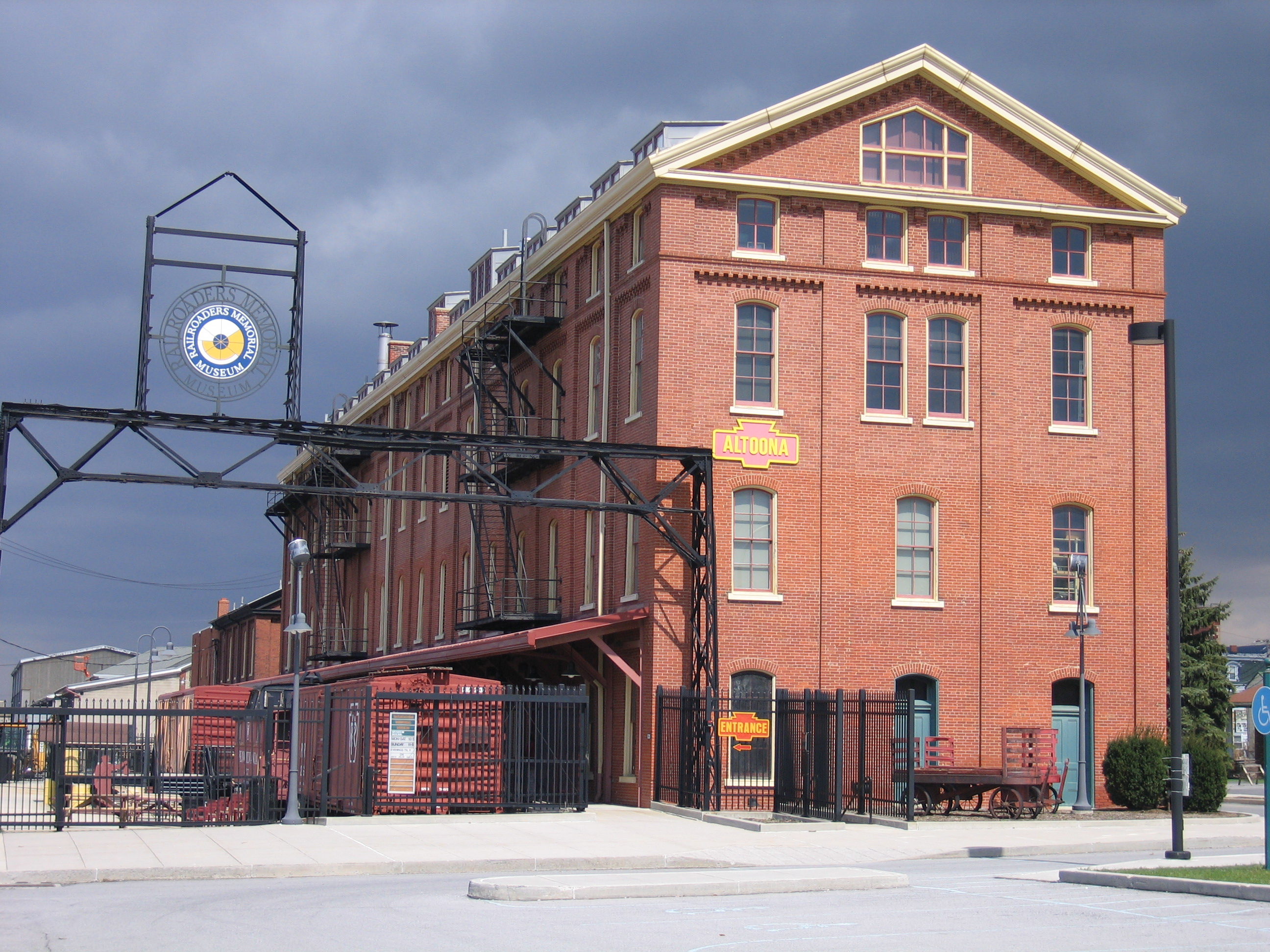 Railroaders Memorial Museum in Altoona, PA, USA. Picture taken and uploaded by Bill Herrington.